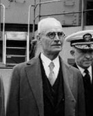 ex Prime Minister of Greece Panagiotis Poulitsas